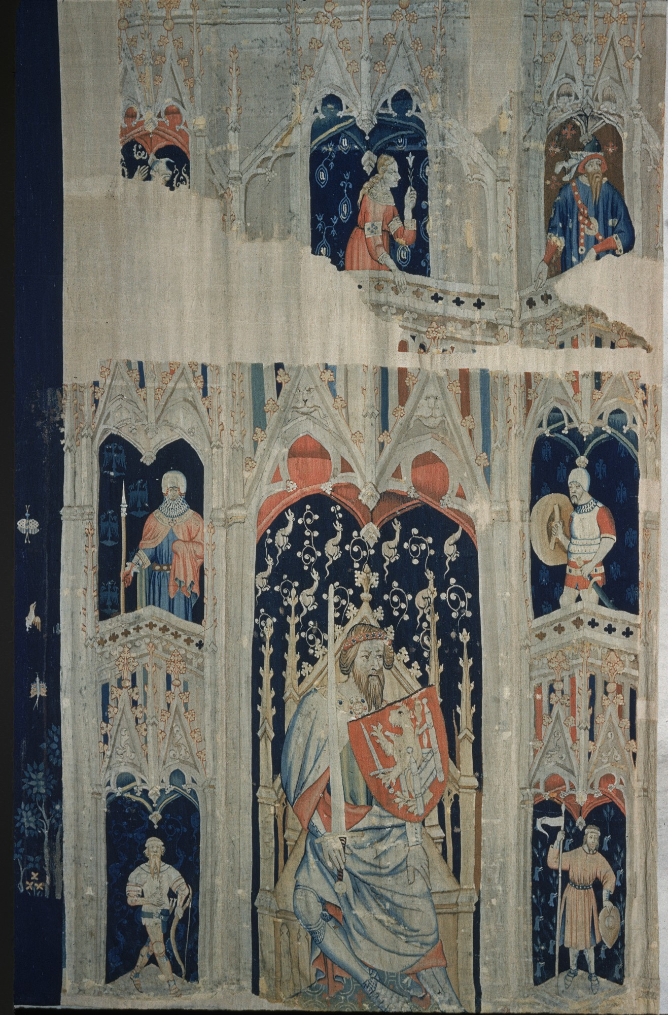 South Netherlandish; Tapestry; Textiles-Tapestries